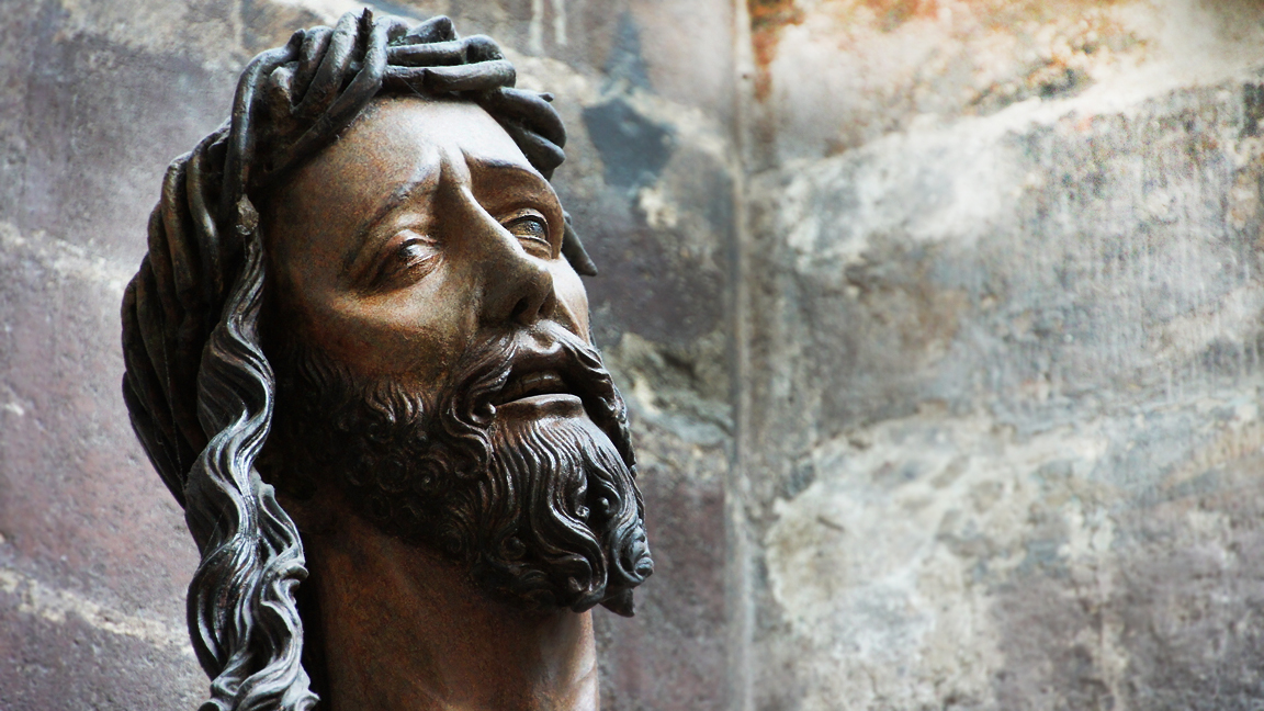 Jesus St. Stephen's Cathedral Vienna